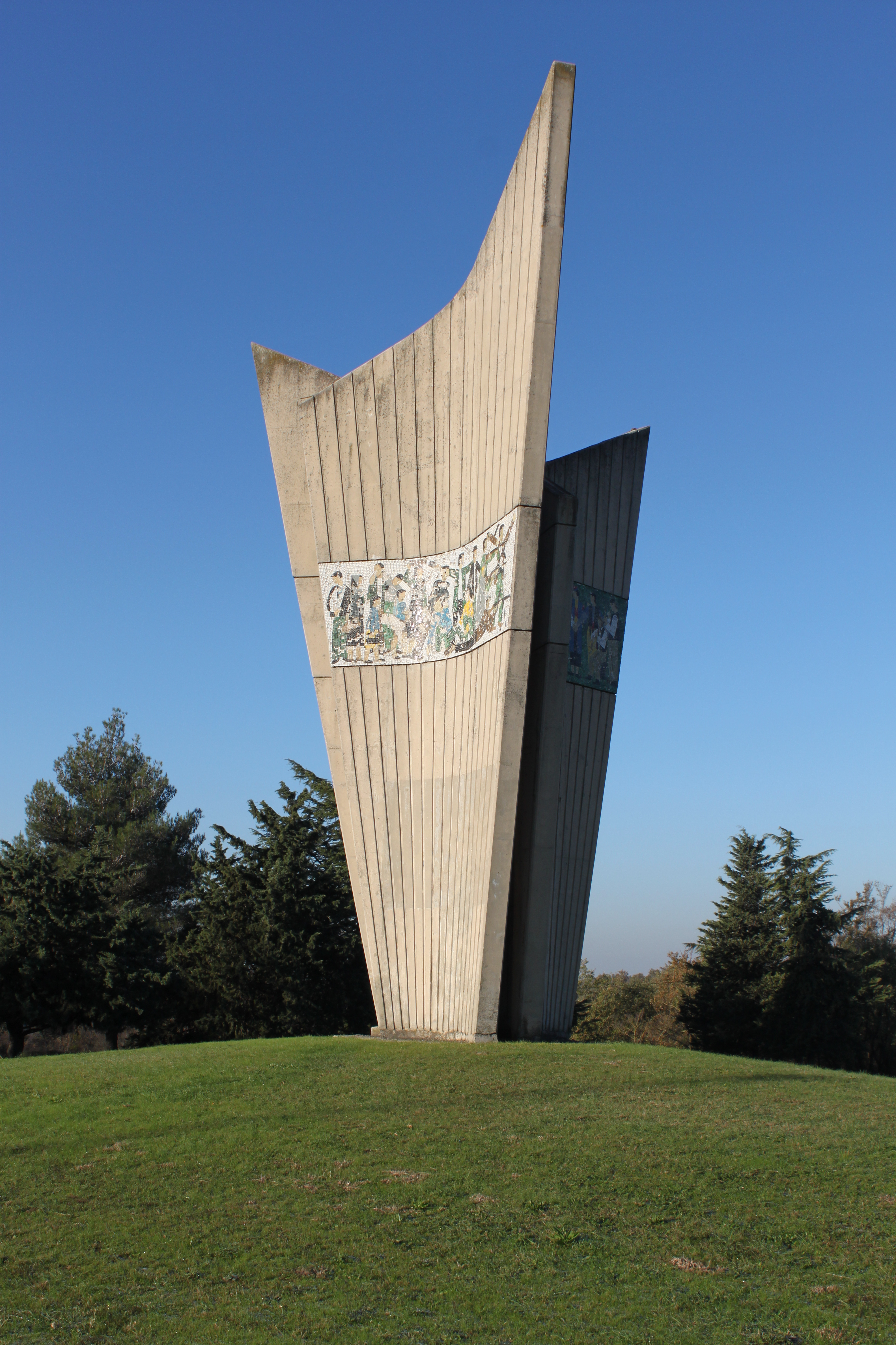 Monument to the antifascist fighters fallen in WWII. Plovanija, Croatia.